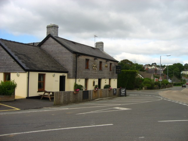 Pembrokeshire Pubs: Boars Head, Templeton